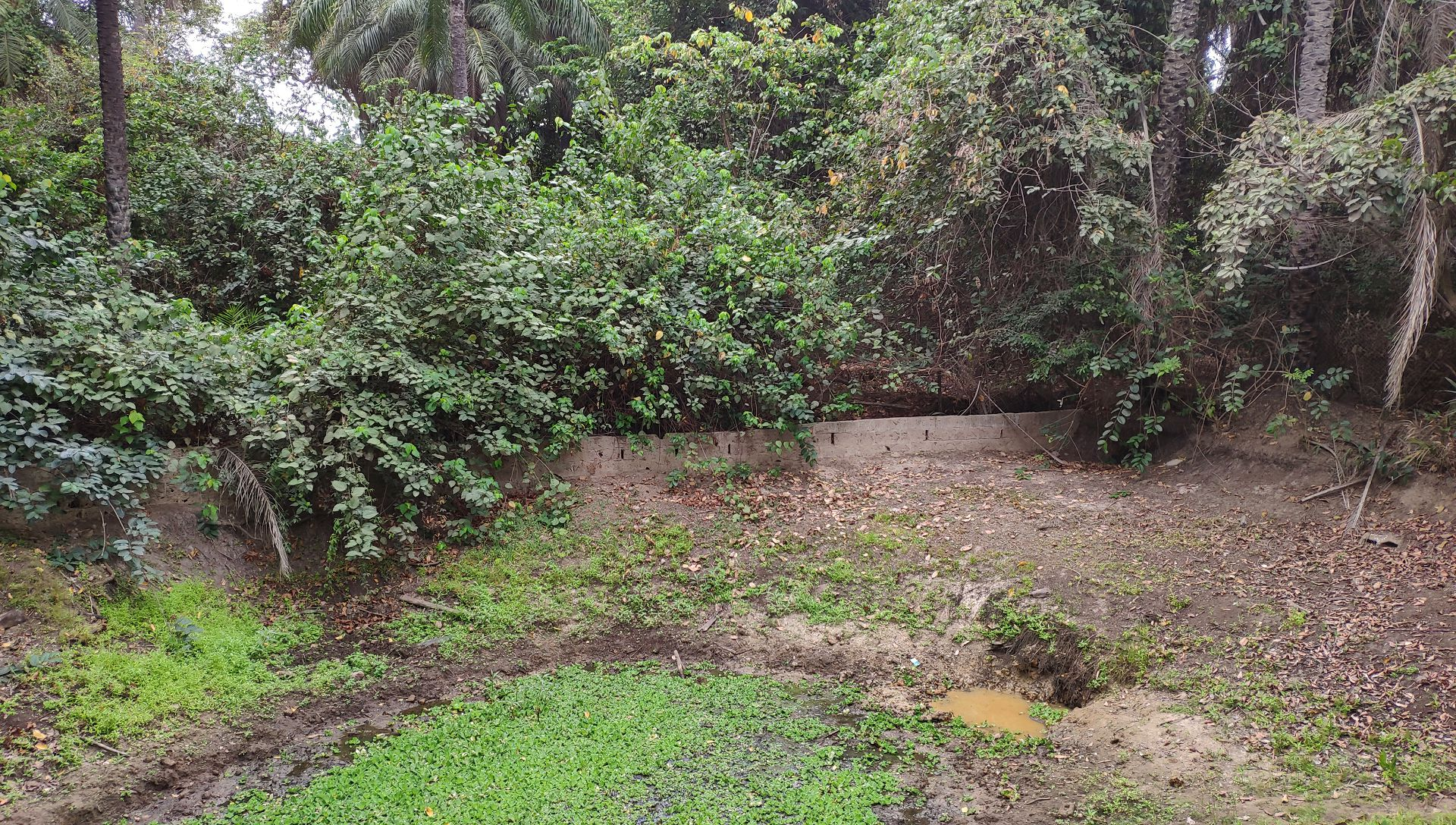 Heiliges Krokodilbecken von Folonko, Gambia British